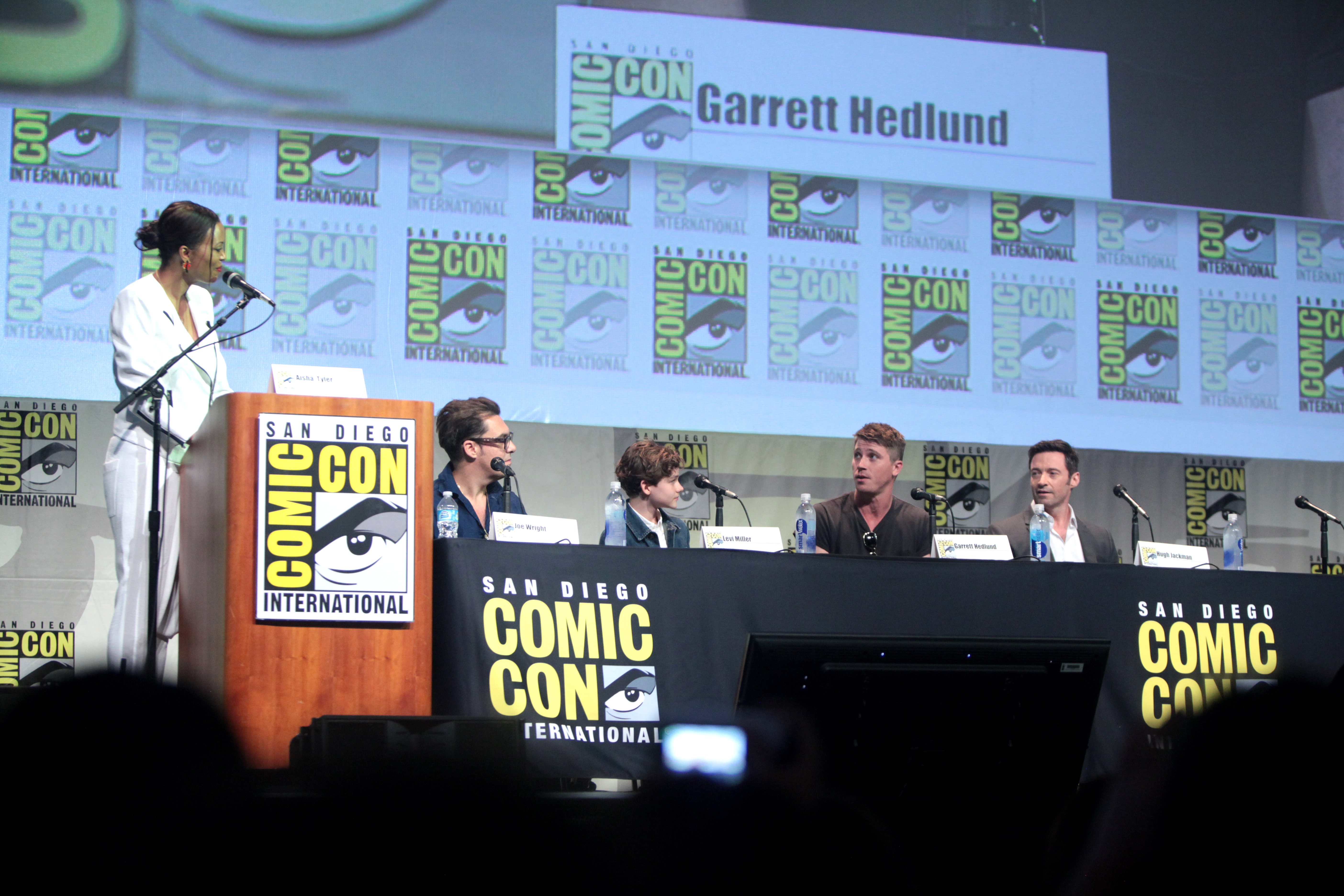 Aisha Tyler, Joe Wright, Levi Miller, Garrett Hedlund and Hugh Jackman speaking at the 2015 San Diego Comic Con International, for "Pan", at the San Diego Convention Center in San Diego, California.